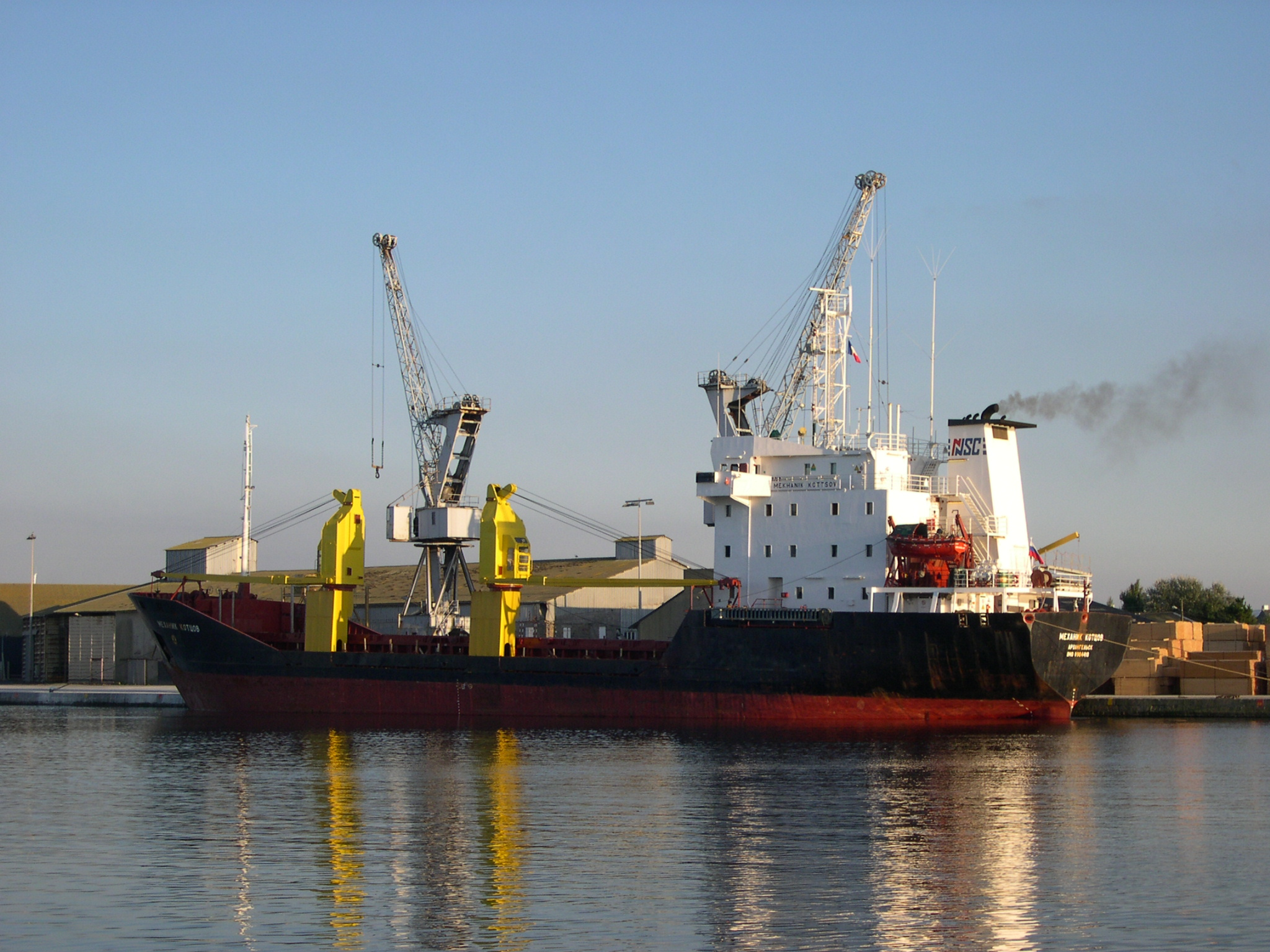 Saint-Malo harbour (France). Coaster along side in Duguay-Trouin haven